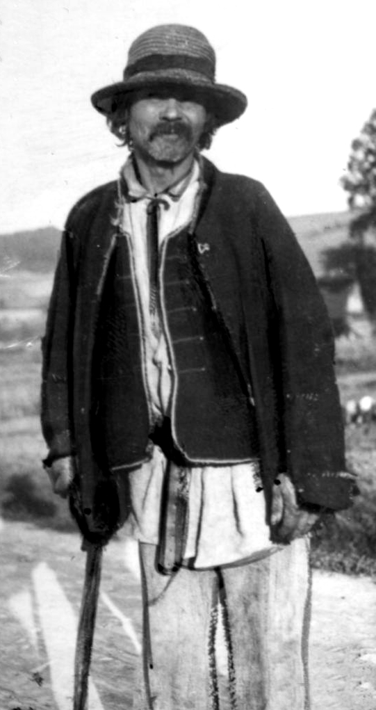 Ukrainian Bojko (Boikos - group of west Ukrainian highlanders) from Telesnycia (Telesnica Sanna), south east Poland. Old prewar photo.